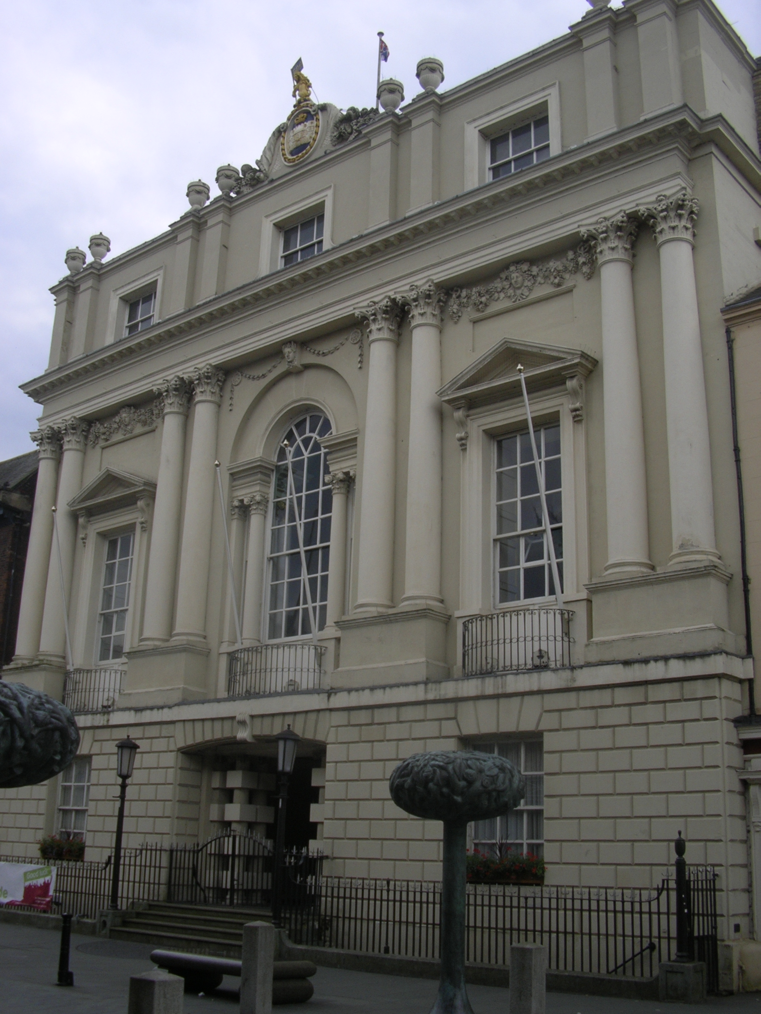 Mansion House in Doncaster, from the High Street.